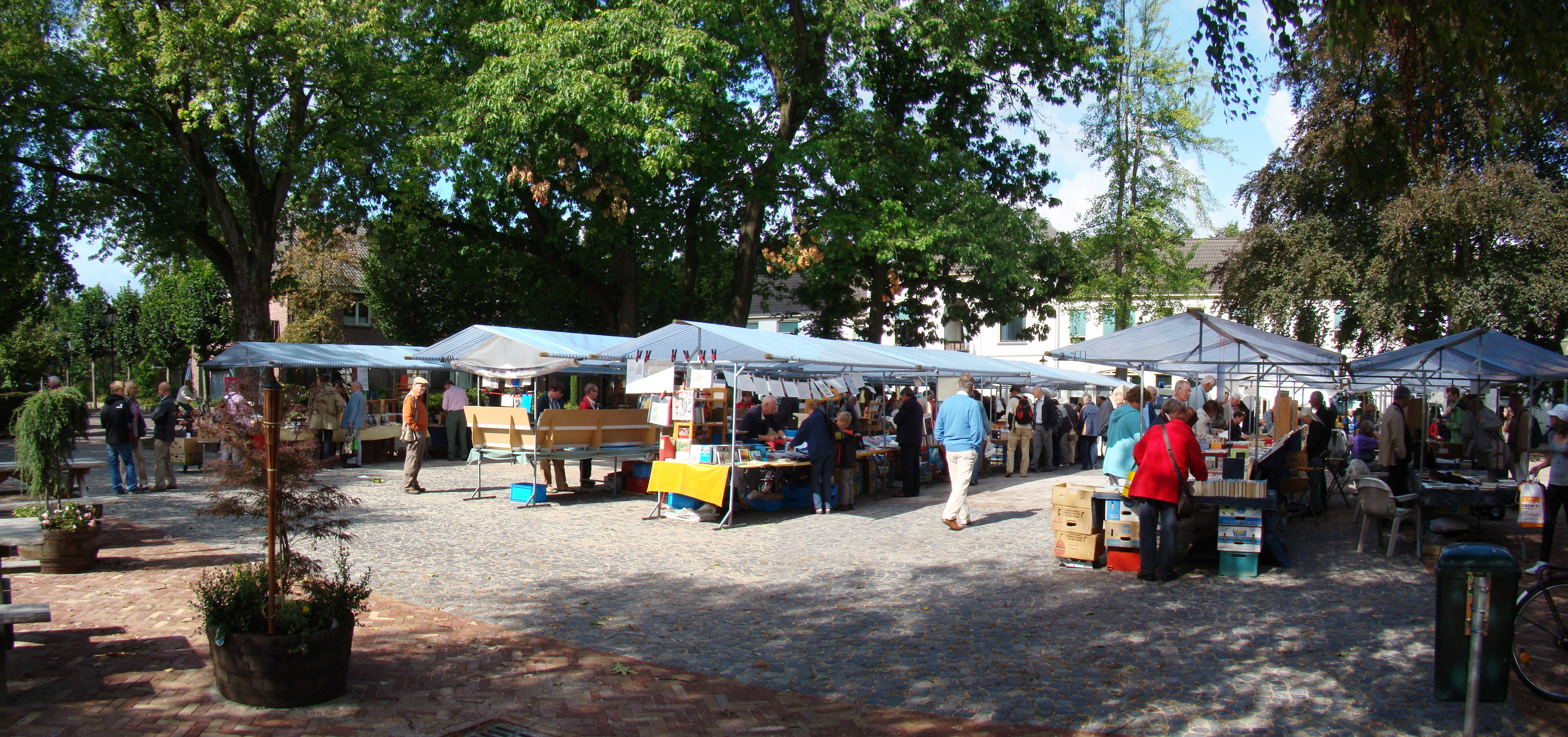 Book market in Bredevoort, Booktown (Netherlands)